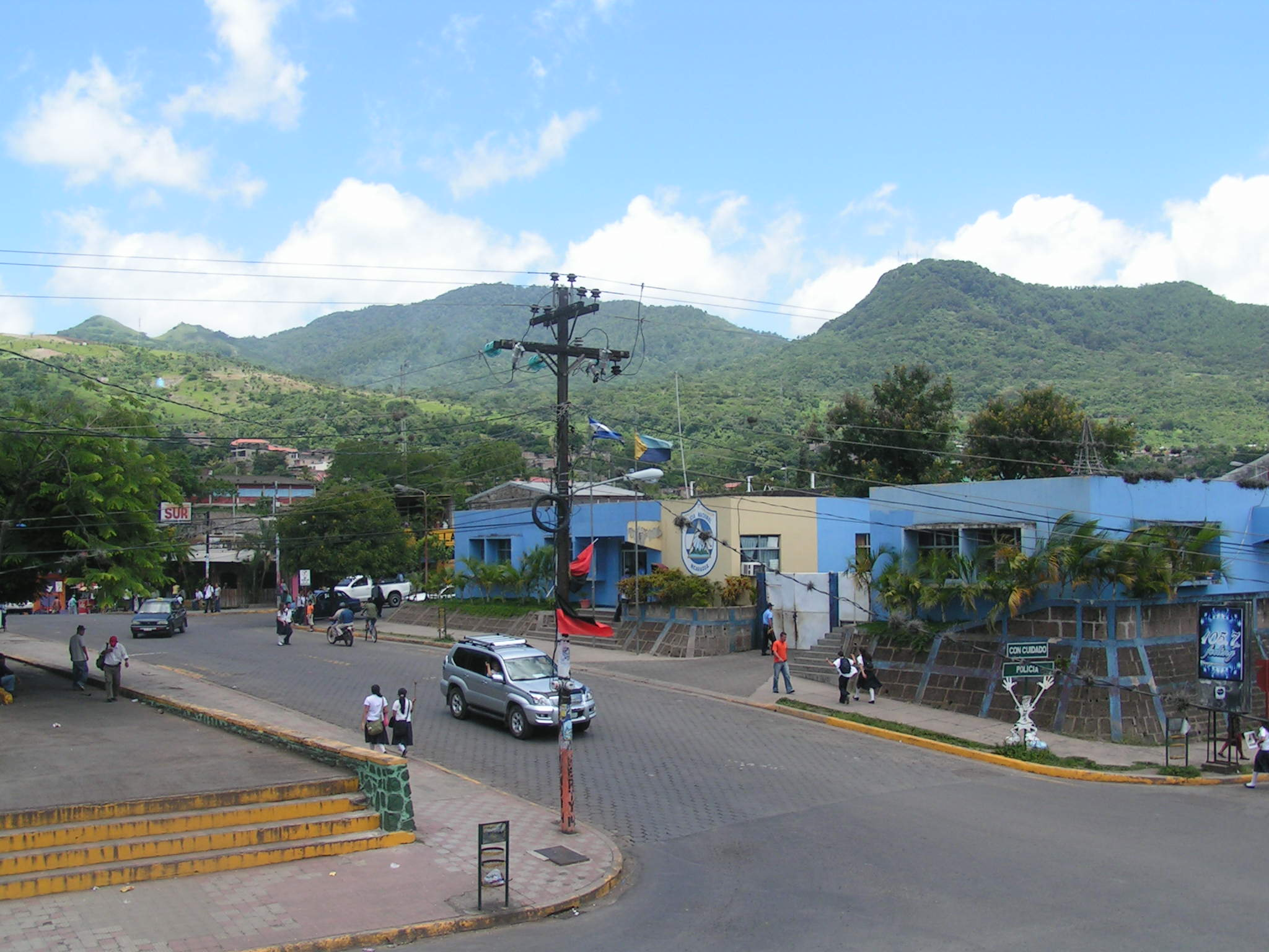 Main police station